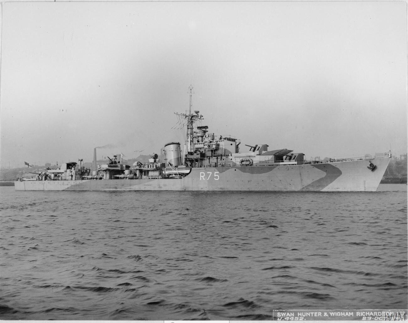 Photograph of British destroyer HMS Virago at anchor on the River Tyne.